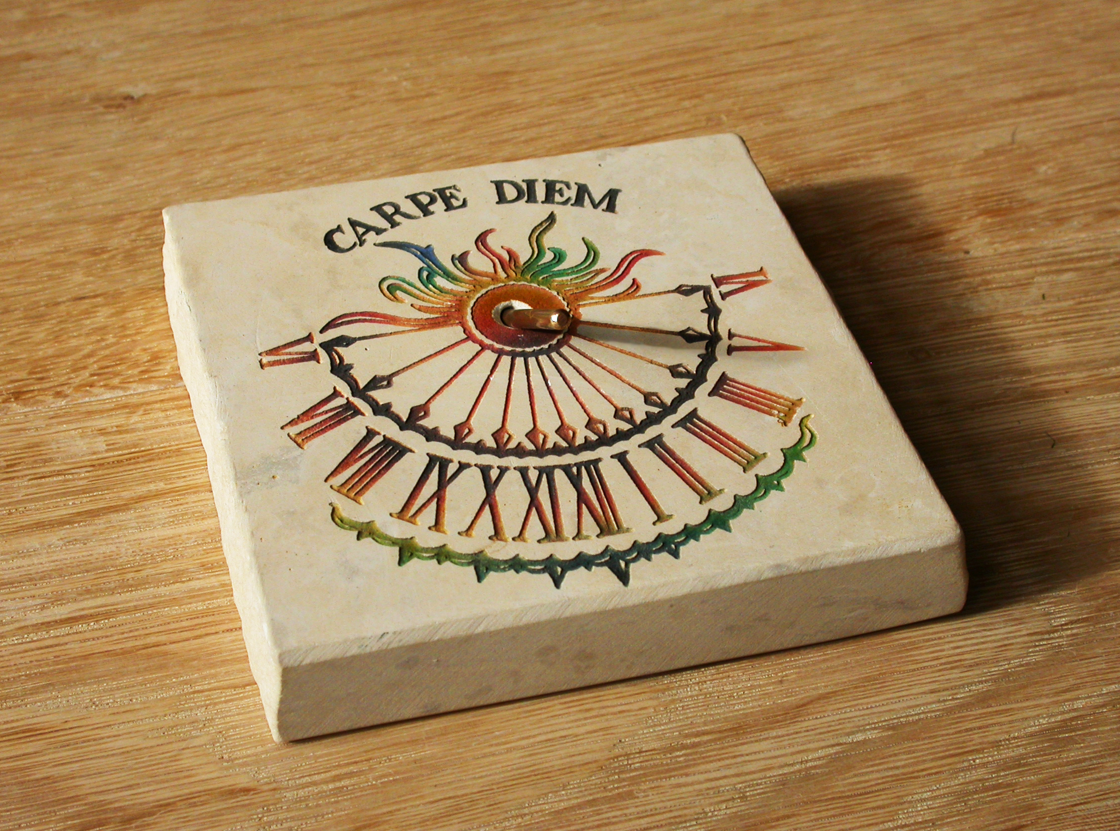 A horizontal sundial with Carpe Diem on it.